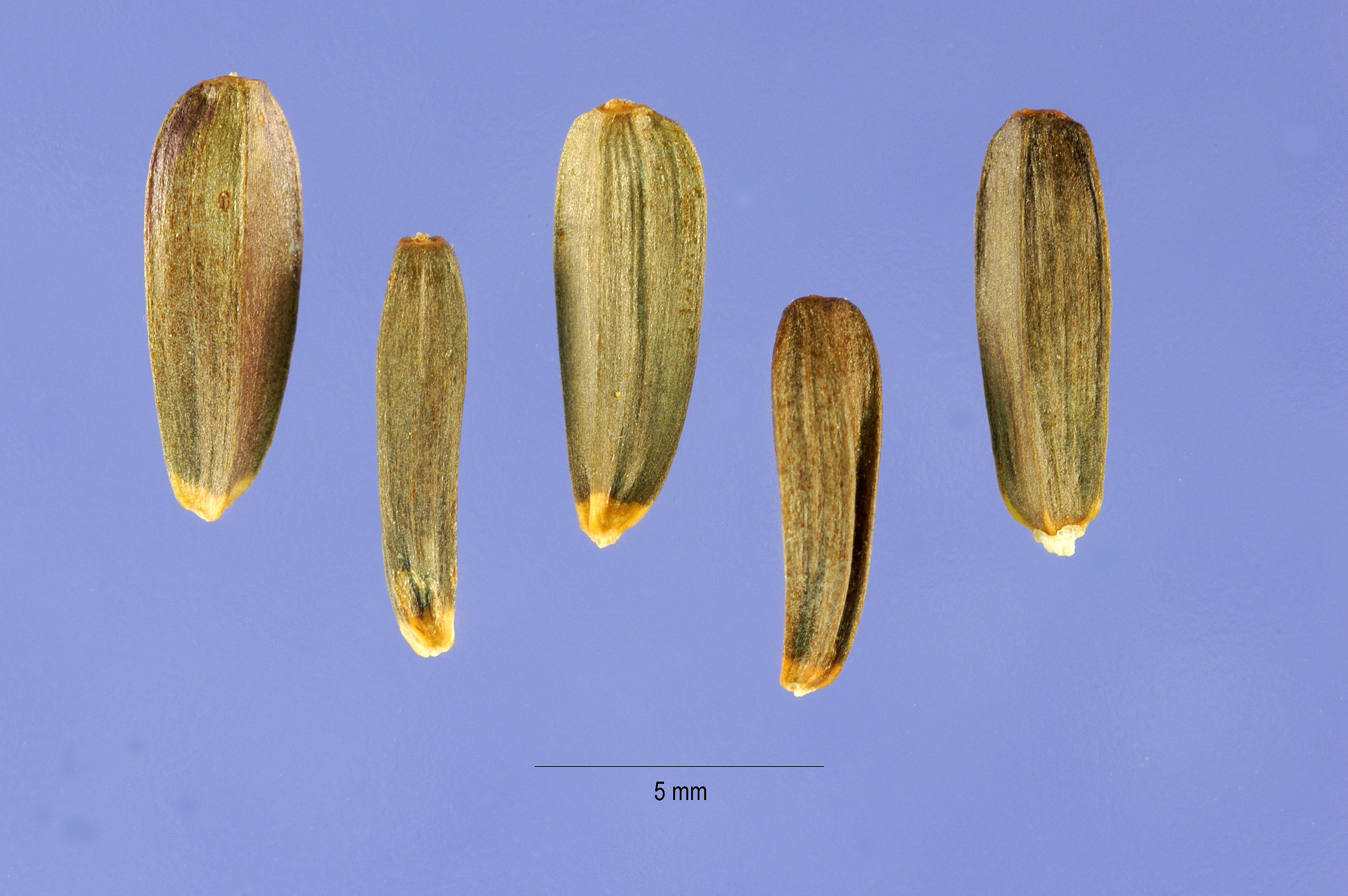 seeds of Balsamorhiza sagittata from Steve Hurst, Provided by ARS Systematic Botany and Mycology Laboratory. United States, NV.